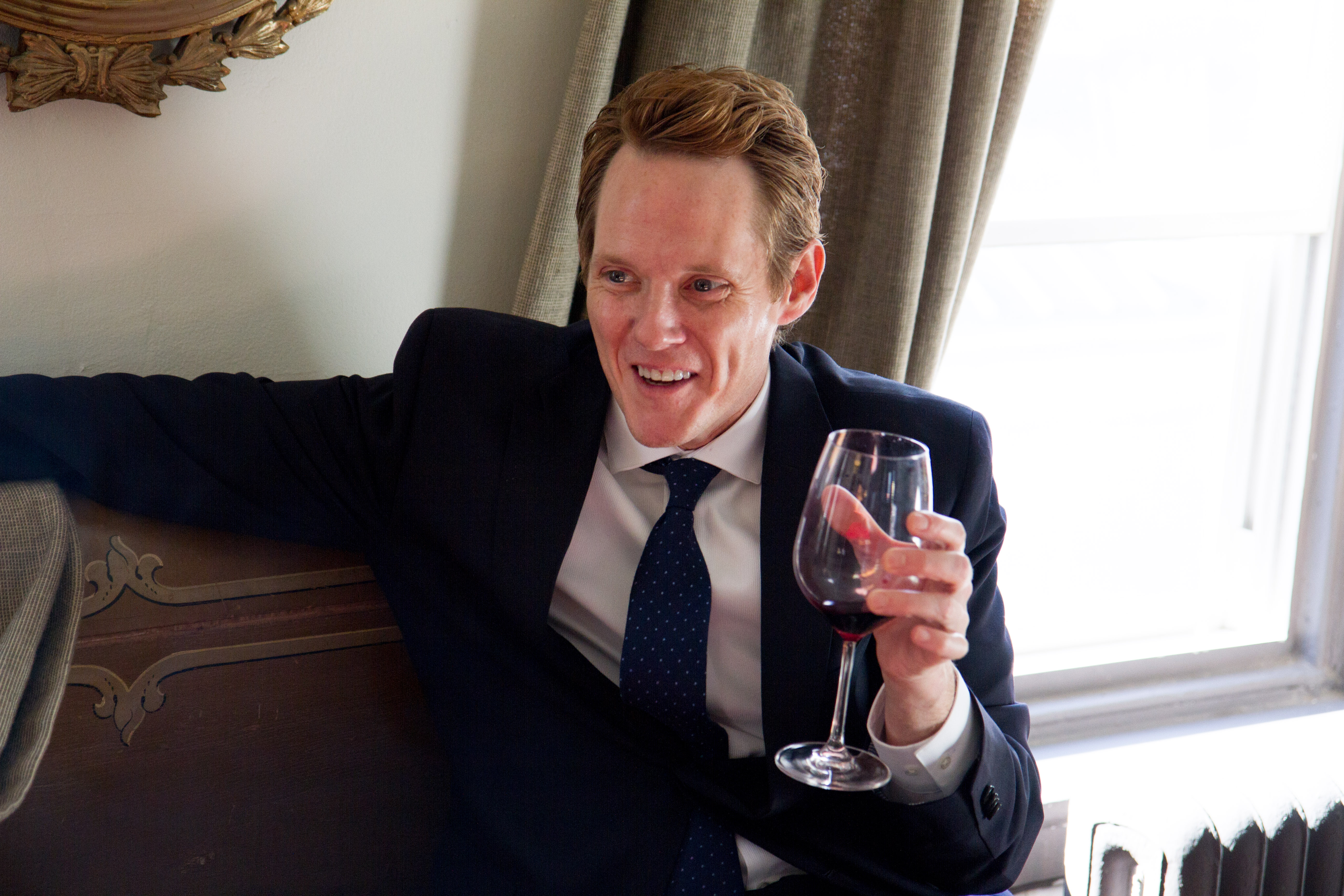 Image of Jimmy Ray Bennett being interviewed after the premier of Hand Of God.